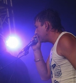 Alex K performing live @ Klubbed 2011